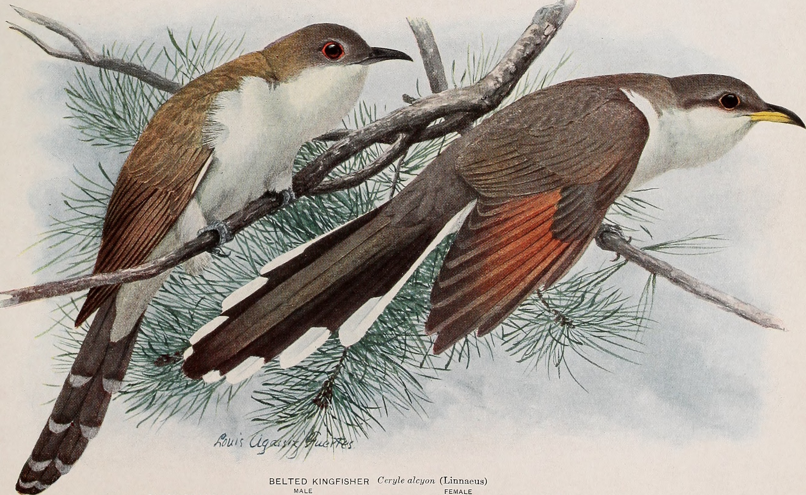 Title: Annual report Year: 1902 (1900s) Authors: New York State Museum Subjects: New York State Museum; Science; Science Publisher: Albany : University of the State of New York Text Appearing Before Image: ' Text Appearing After Image: BLACK-BILLED CUCKOO Coccyzus erythrophlkalmus (Wilson) BELTED KINGFISHER Ceryle alcyon (Linnaeus) MALE FEMALE All i nat. size YELLOW-BILLED CUCKOO Coccyzus americanus o.mericanus (Linnaeus)